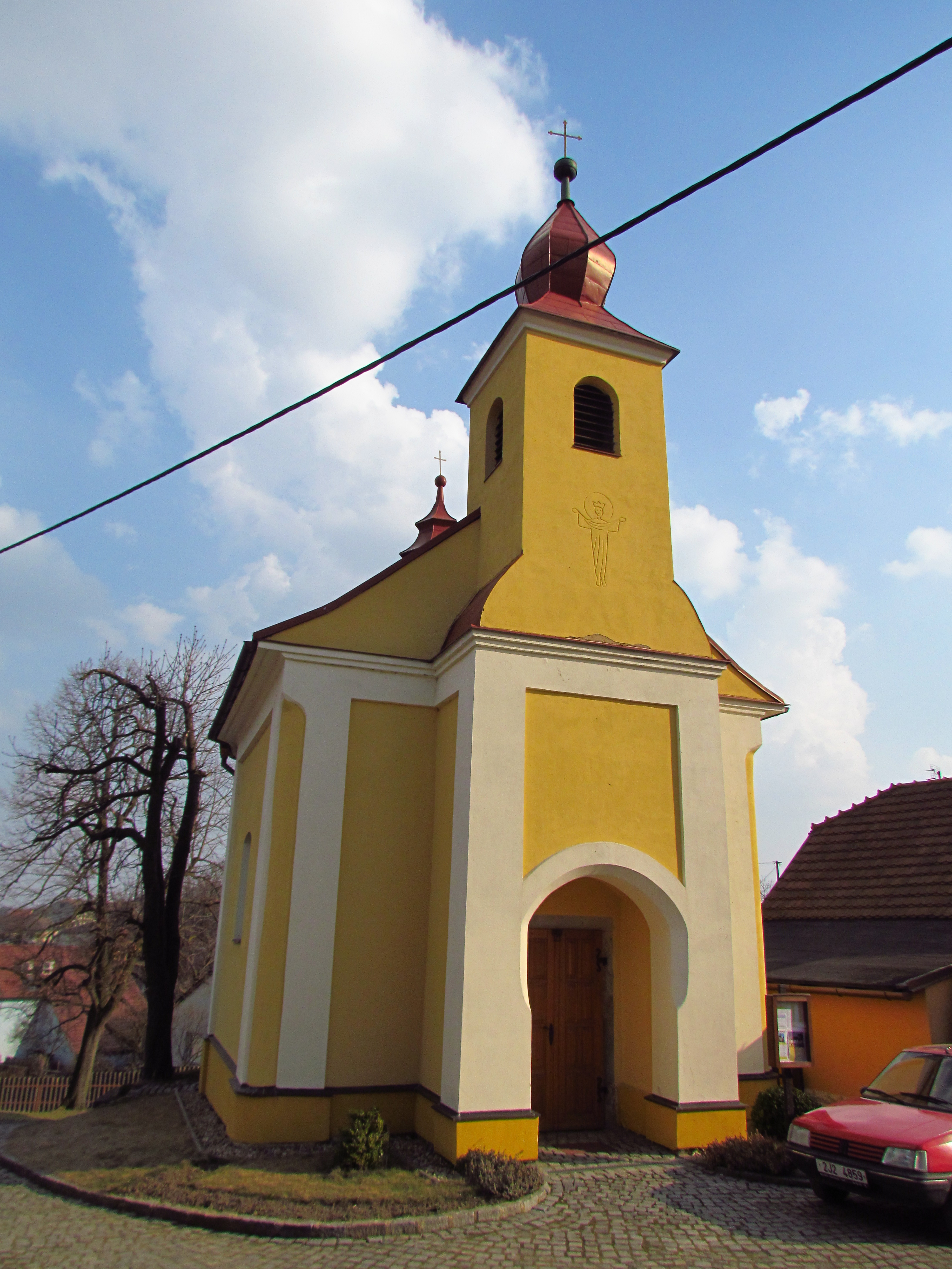 Overview of Chapel of Saints Cyril and Methodius in Chlístov, Třebíč District.